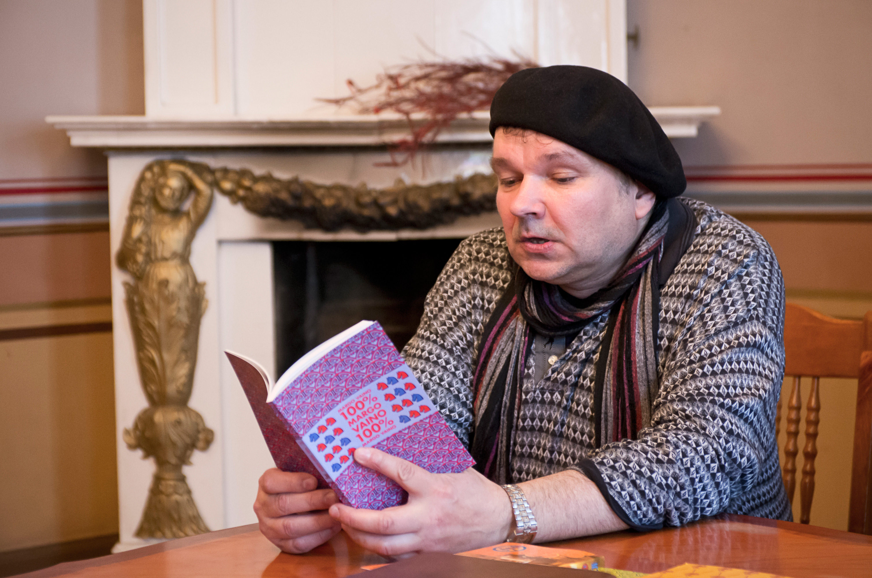 Margo Vaino raamatuesitlusel Tartu kirjanike majas 23. aprillil 2013